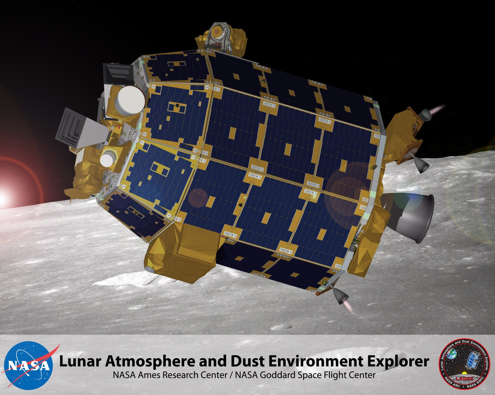 Artist's depiction of the LADEE spacecraft in orbit at the Moon.